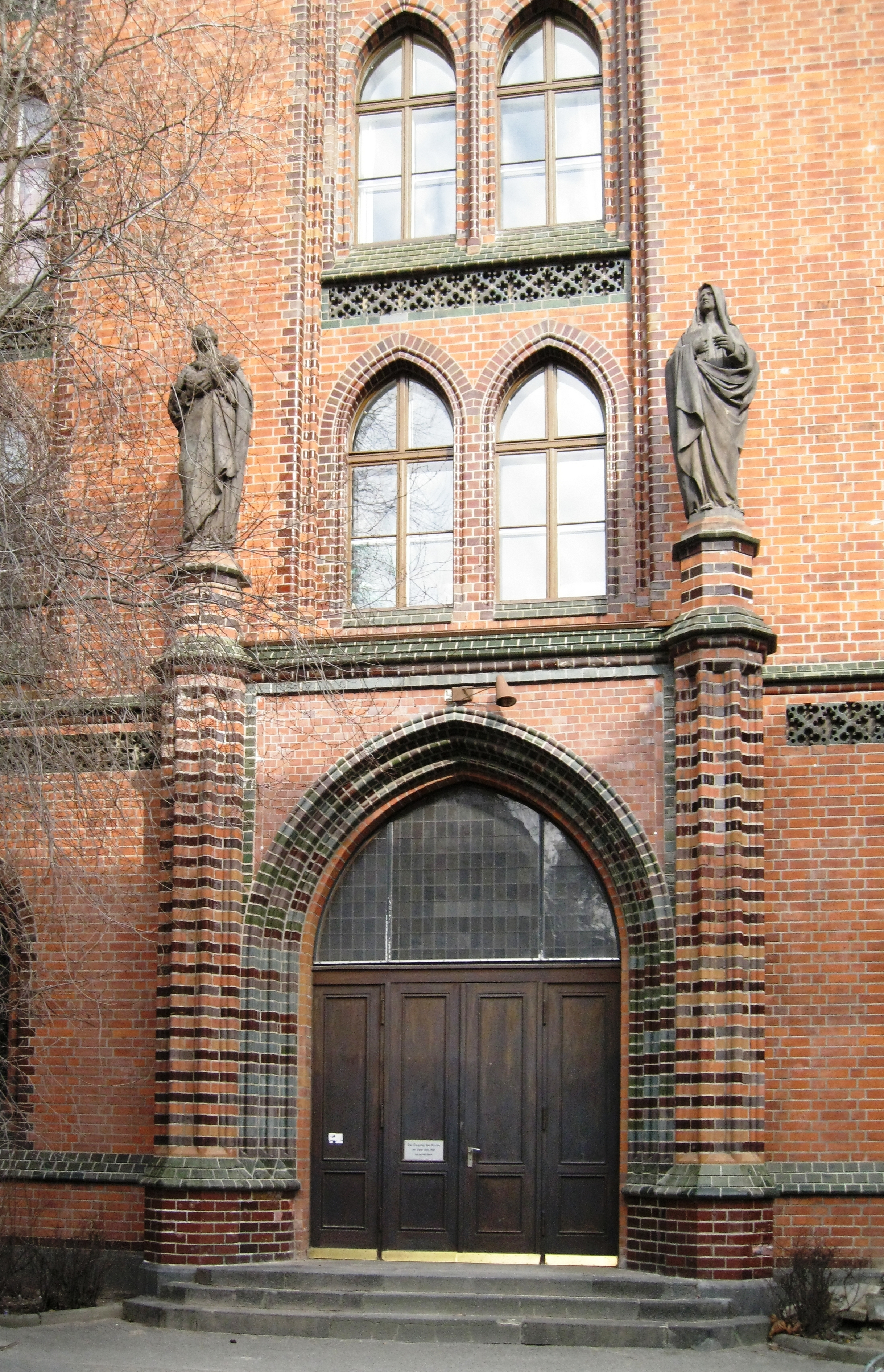 Portal der St.-Simeon-Kirche